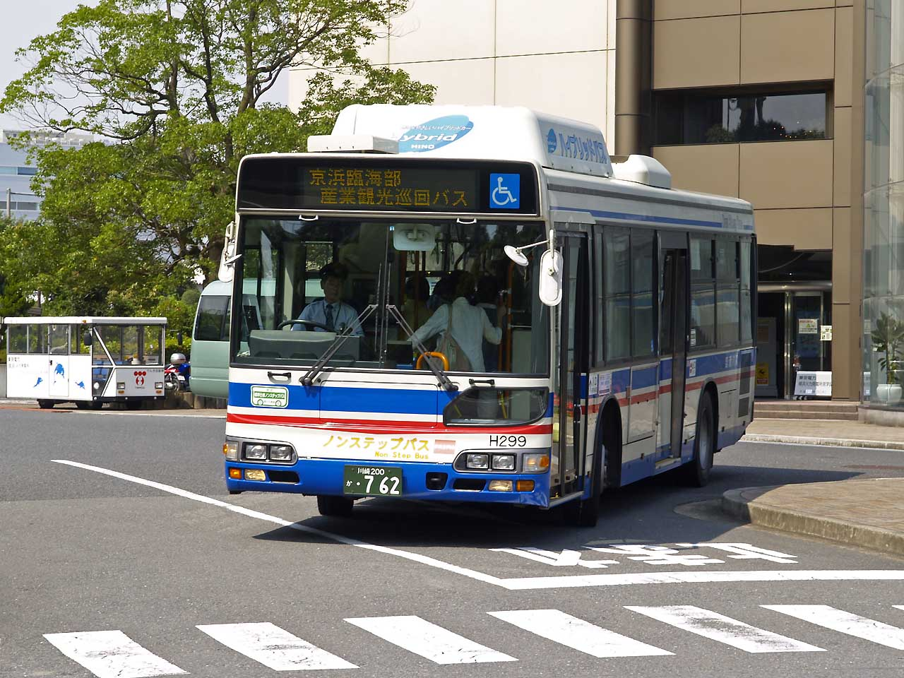 Keihin industrial zone sightseeing route bus, operated by Rinko Bus. Model: Hino Blue Ribbon City Hybrid HU8JLFP License plate: KNK200 KA-762 Place: Tokyo Electric Power Yokohama Power Plant, Tsurumi ward, Yokohama Japan